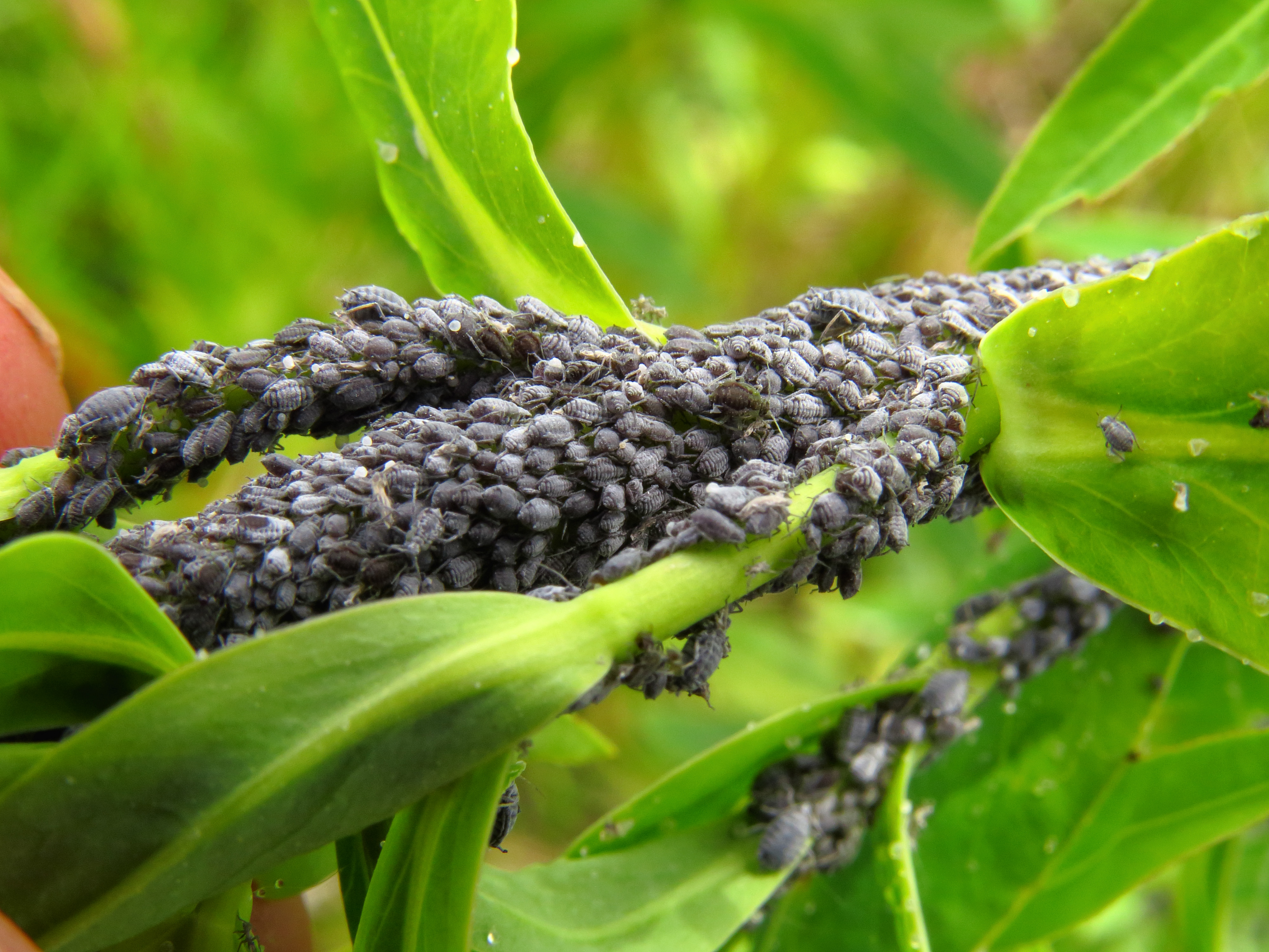 Aphidoidea sp. on Euphorbia palustris near Zazymya, Brovary raion, Kiev oblast, Ukraine